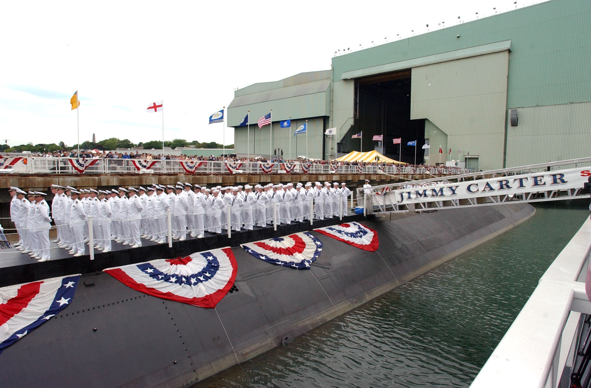 Groton, Conn (Jun 5, 2004) – The crew of the Seawolf-class nuclear attack submarine Jimmy Carter (SSN 23) stand in ranks awaiting the christening of their submarine. The new submarine honors the 39th president of the United States who is the only submarine-qualified man that went on to become the nation's chief executive. Differentiating the Jimmy Carter from all other undersea vessels is her Multi-Mission Platform (MMP), which includes a 100-foot hull extension that enhances payload capability, enabling it to accommodate advanced technology required to develop and test an entirely new generation of weapons, sensors and undersea vehicles. Jimmy Carter is the third and last of the Seawolf class submarines. U.S. Navy photo by Journalist 3rd Class Steven Feller (RELEASED)